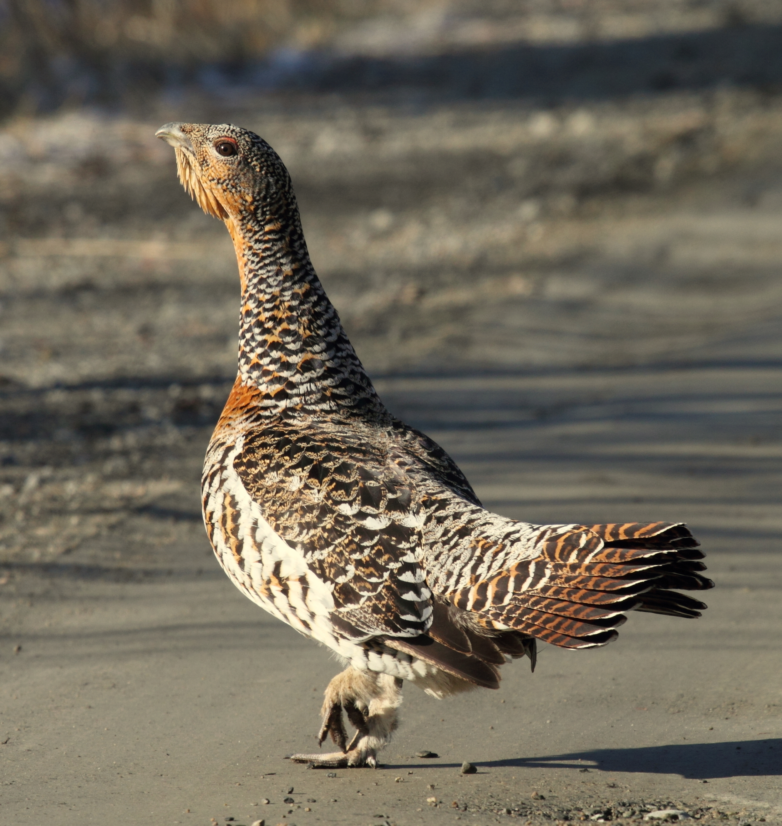 Female Capercaille very reluctantly leaving the road for me to pass. Ytterolden in Jämtland, Sweden.